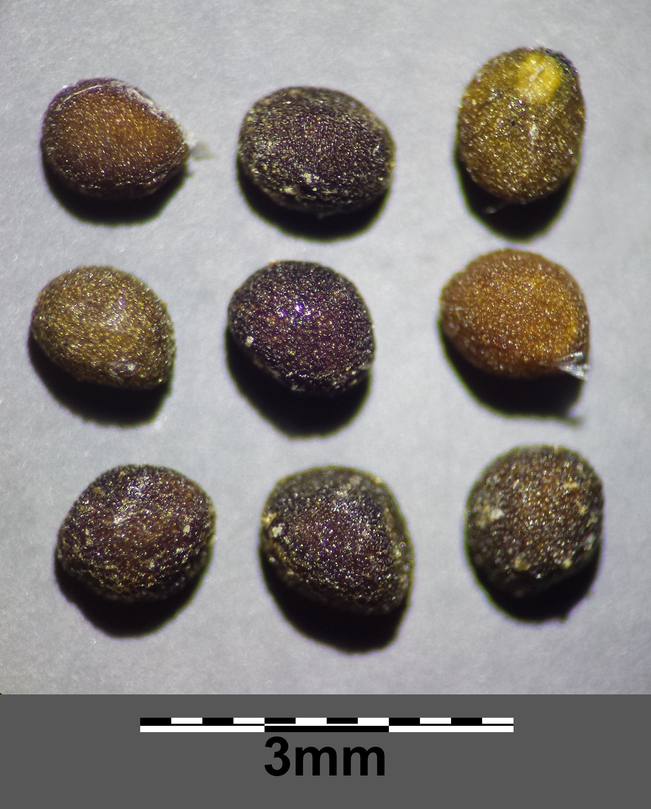 Seeds Taxonym: Cuscuta europaea ss Fischer et al. EfÖLS 2008 ISBN 978-3-85474-187-9 Location: next to Harmannstein, Großschönau, district Gmünd, Lower Austria - ca. 800 m a.s.l. Habitat: wayside